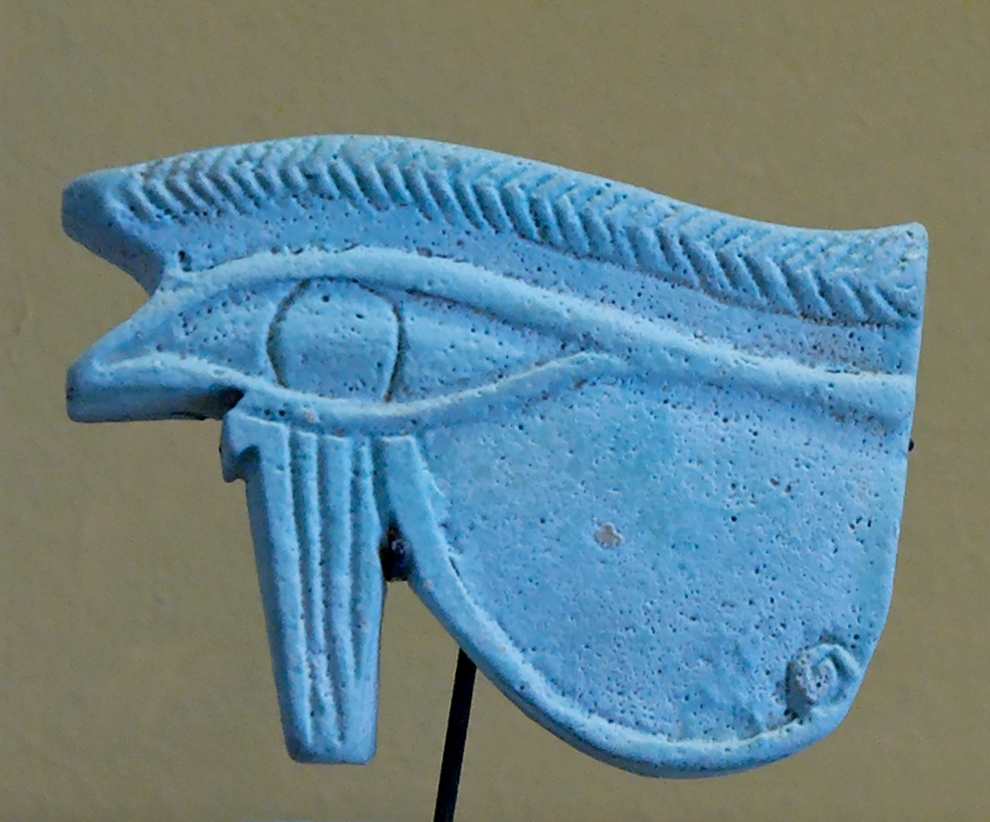 Amulet with the Eye of Horus. Earthenware, Achaemenid artwork, late 6th–4th centuries BC. From the Tell of the Apadana in Susa.